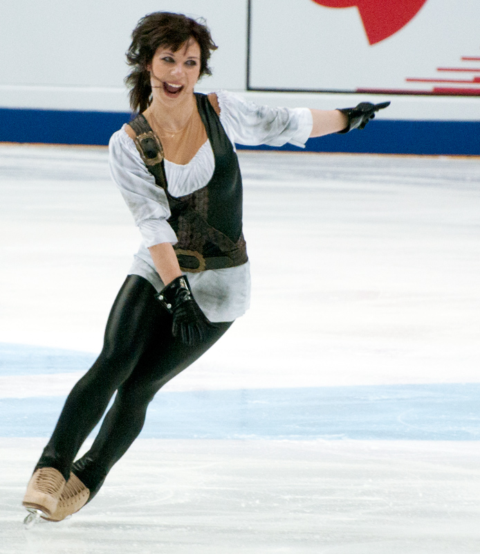 2011 Cup of Russia, short program.